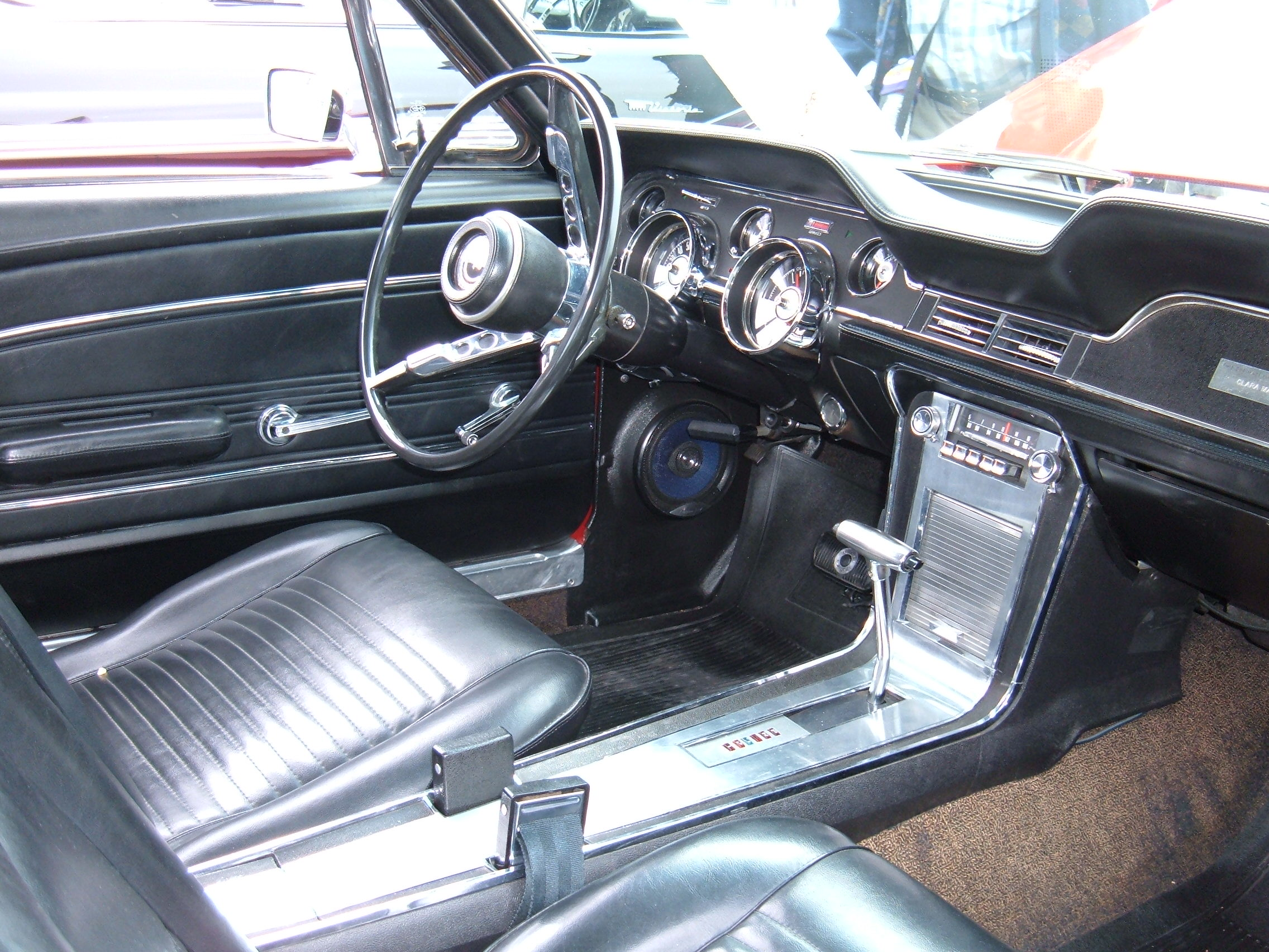 The interior of a 1967 Ford Mustang coupe at the Wings over Wine Country 2008 air show at the Charles M. Schulz - Sonoma County Airport in Sonoma County, California.